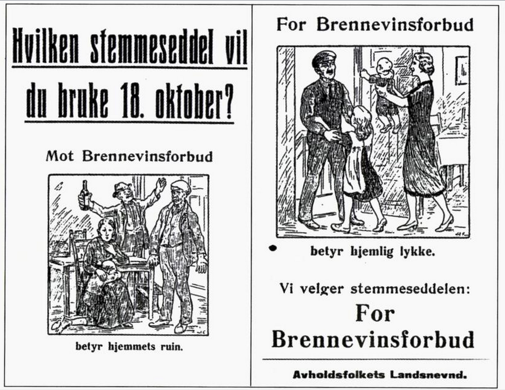 Election poster for the Norwegian referendum on alcohol prohibition in 1926. Artwork by unknown artist